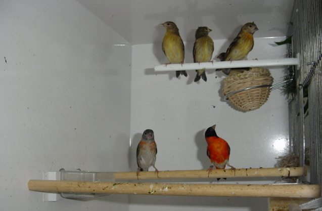 Una familia con sus crías ya crecidas. Description: Black headed red siskin family with its chicks (Carduelis cucullata) Creator: Luis Carocci. Date: 30 de noviembre de 2007 (30-11-2007). Place: Canada